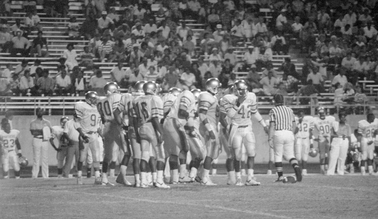 Date: 1989/9/9 File Number: 9445 Assignment: Football SWT vs. P A & M